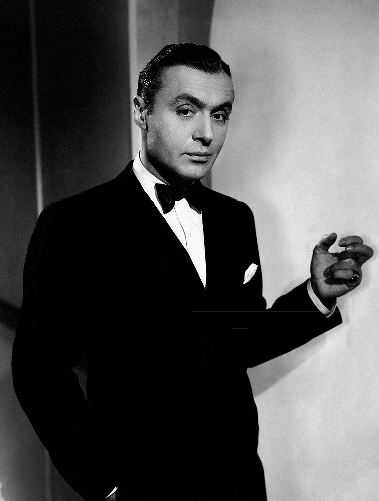 Charles Boyer in Love Affair